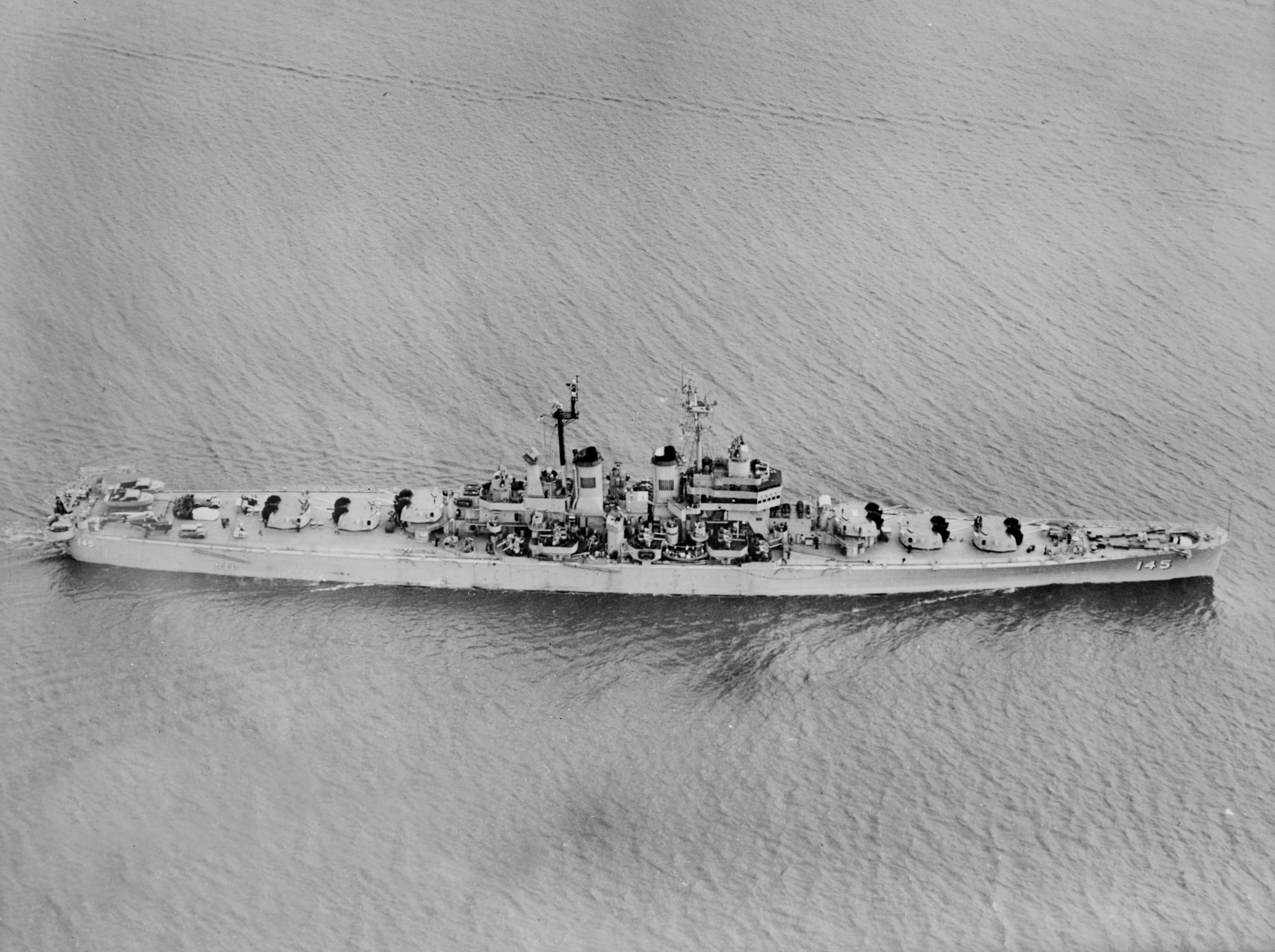 The U.S. Navy light cruiser USS Roanoke (CL-145) underway off the Philadelphia Naval Shipyard, Pennsylvania (USA), in January 1950. Note the automobiles and the Sikorsky HO3S helicopter on the fantail.